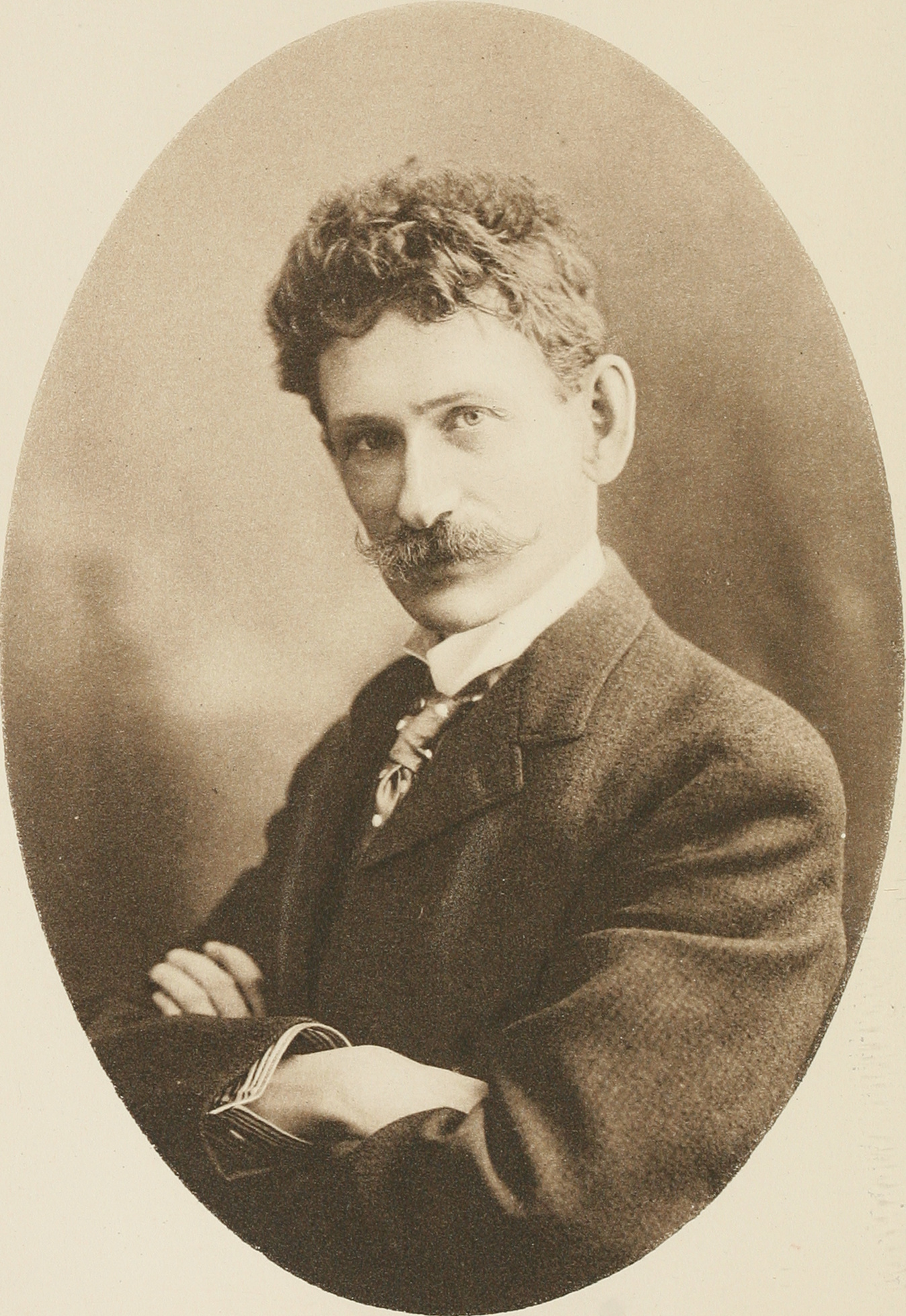 Photograph of Peter Newell, American artist and author